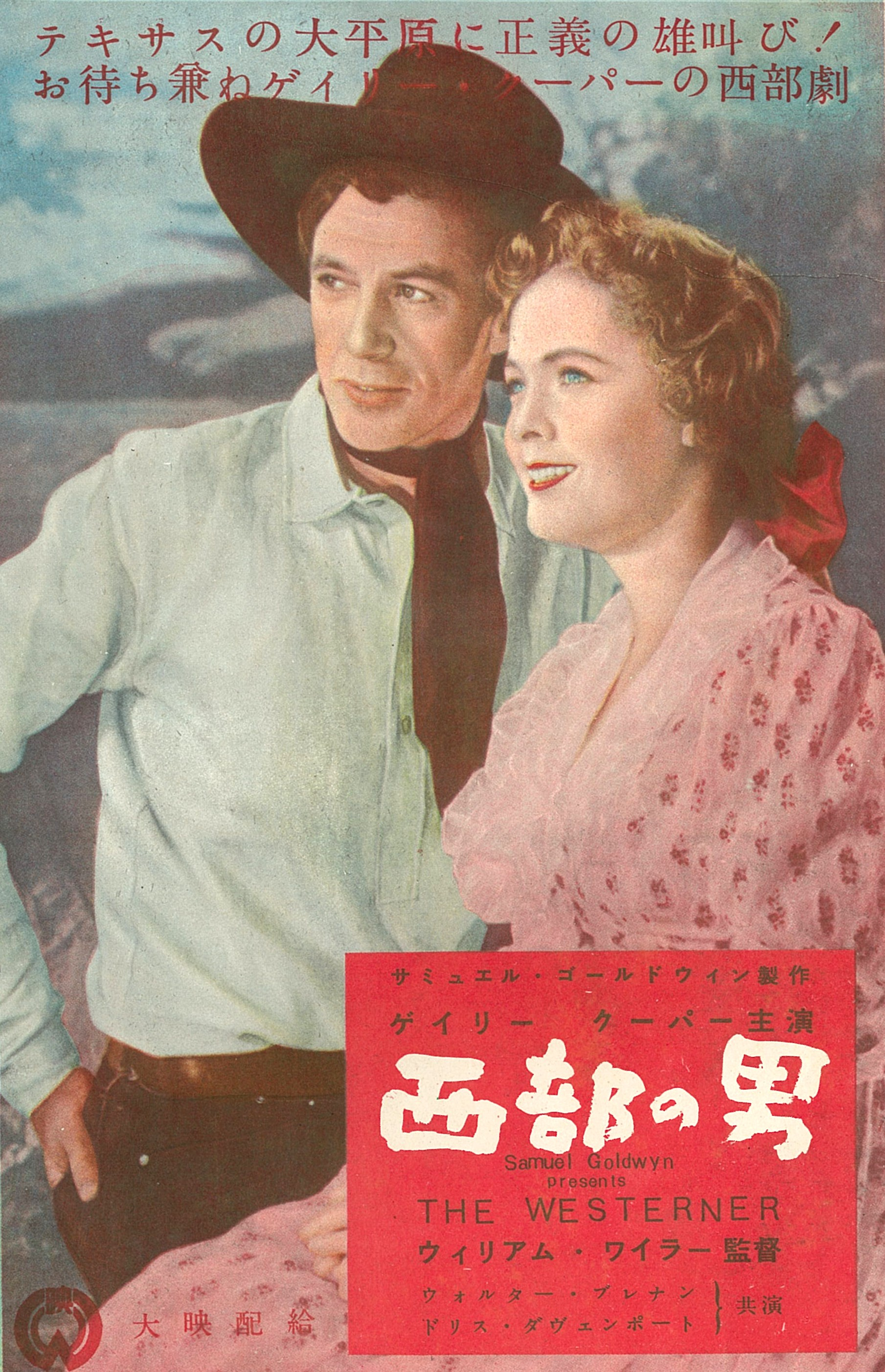 Eiga No Tomo (映画之友) February 1951 page 1 featuring the movie poster for The Westerner ( 西部の男 ) (1940)